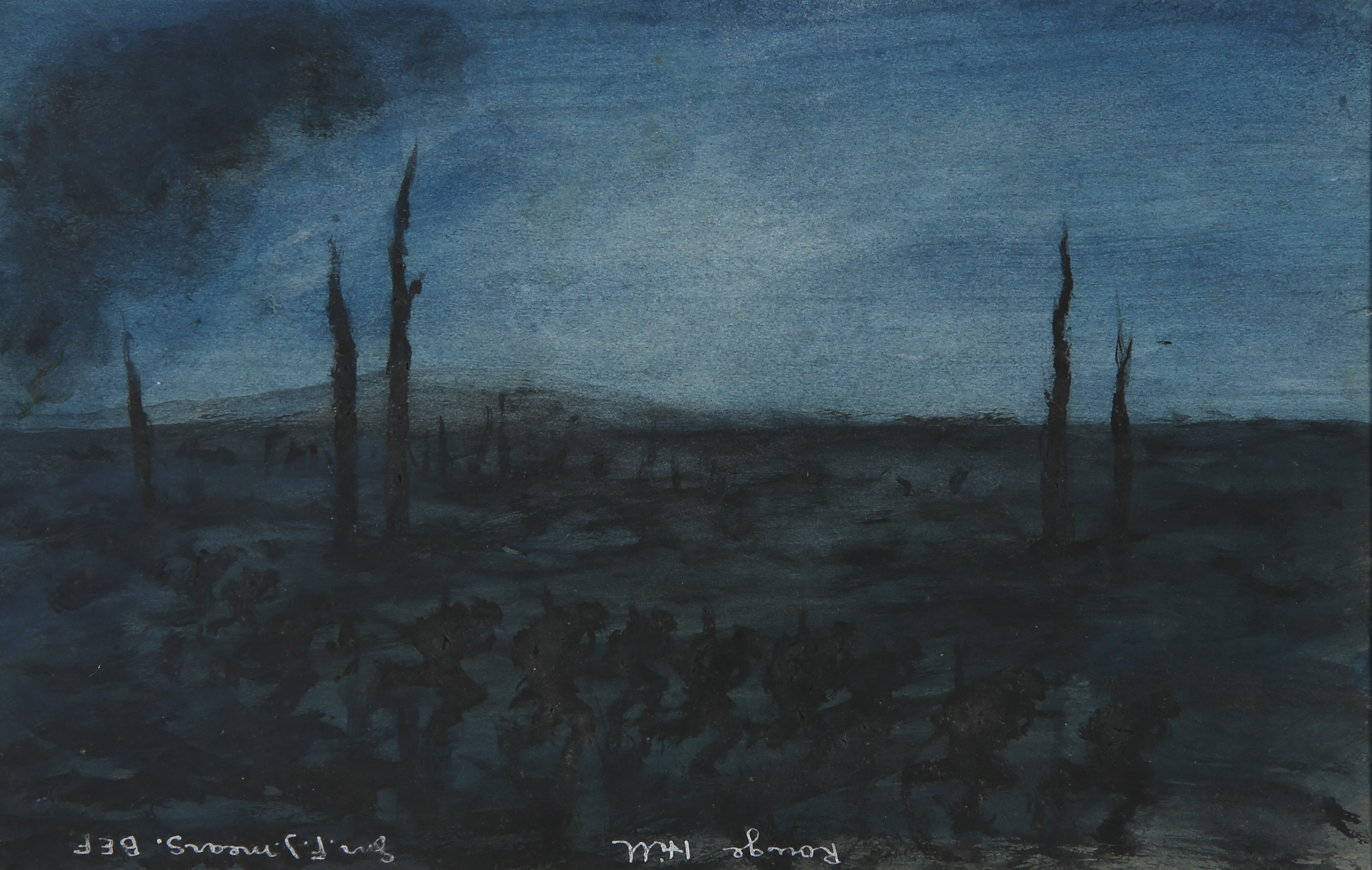 Watercolour and ink on paper. Signed upside down; inscribed with title.